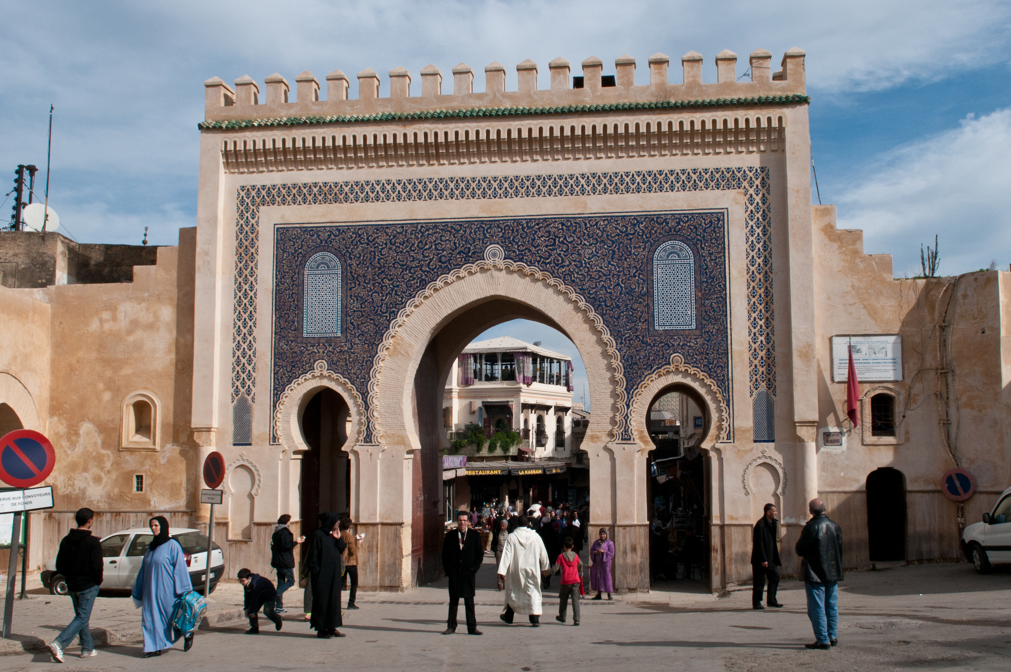 The Blue Gate of Fes